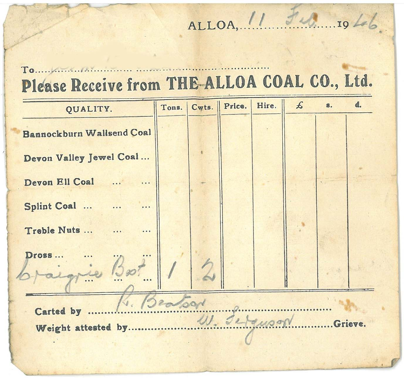 Scan of delivery note for 1 ton and 2 cwt. of Craigrie Best coal from Craigrie Colliery near Clackmannan in Scotland, a mine operated by the Alloa Coal Company Ltd.